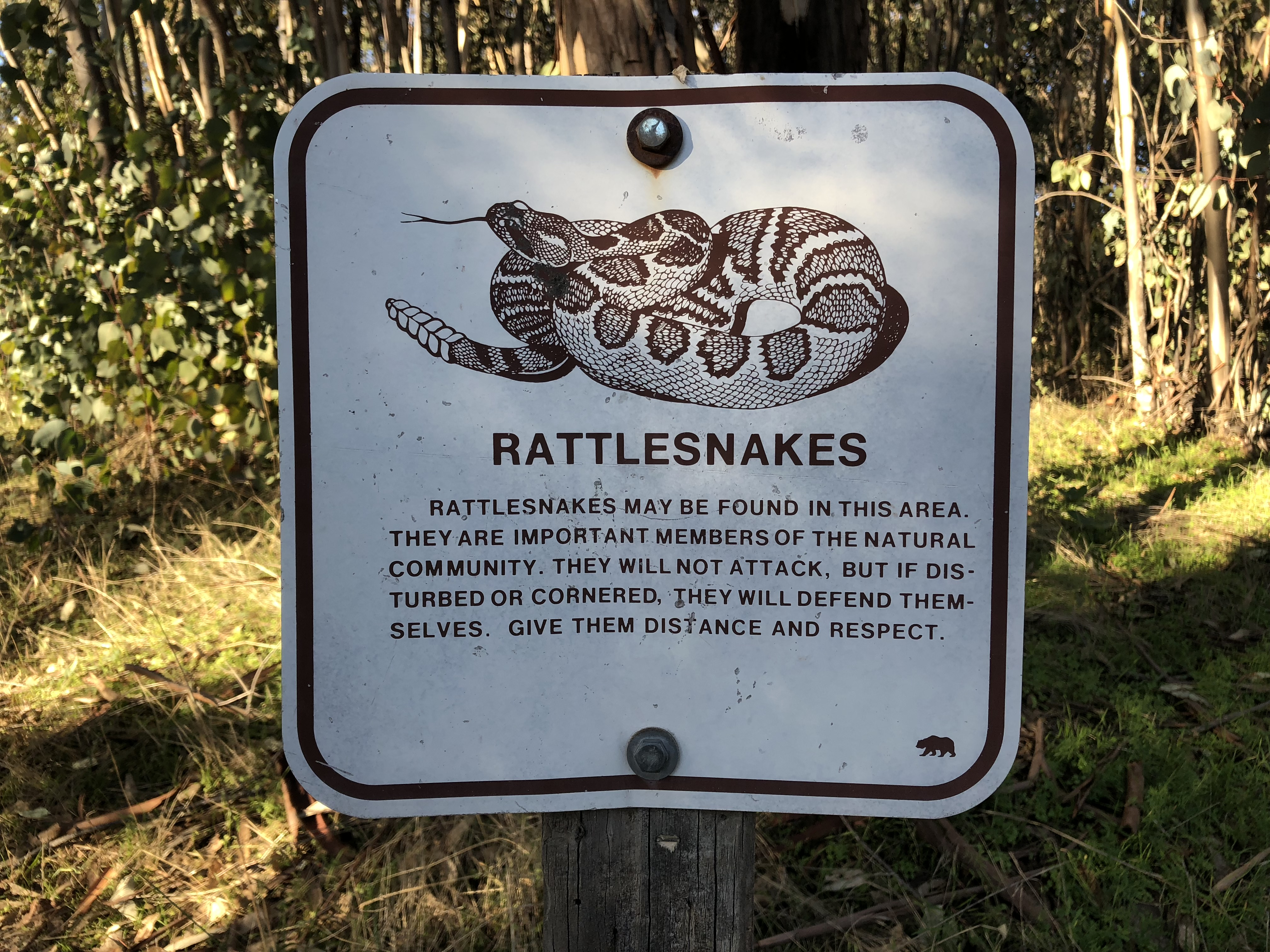 Rattlesnake warning sign, Jack London State Historic Park, Glen Ellen, Sonoma County, California